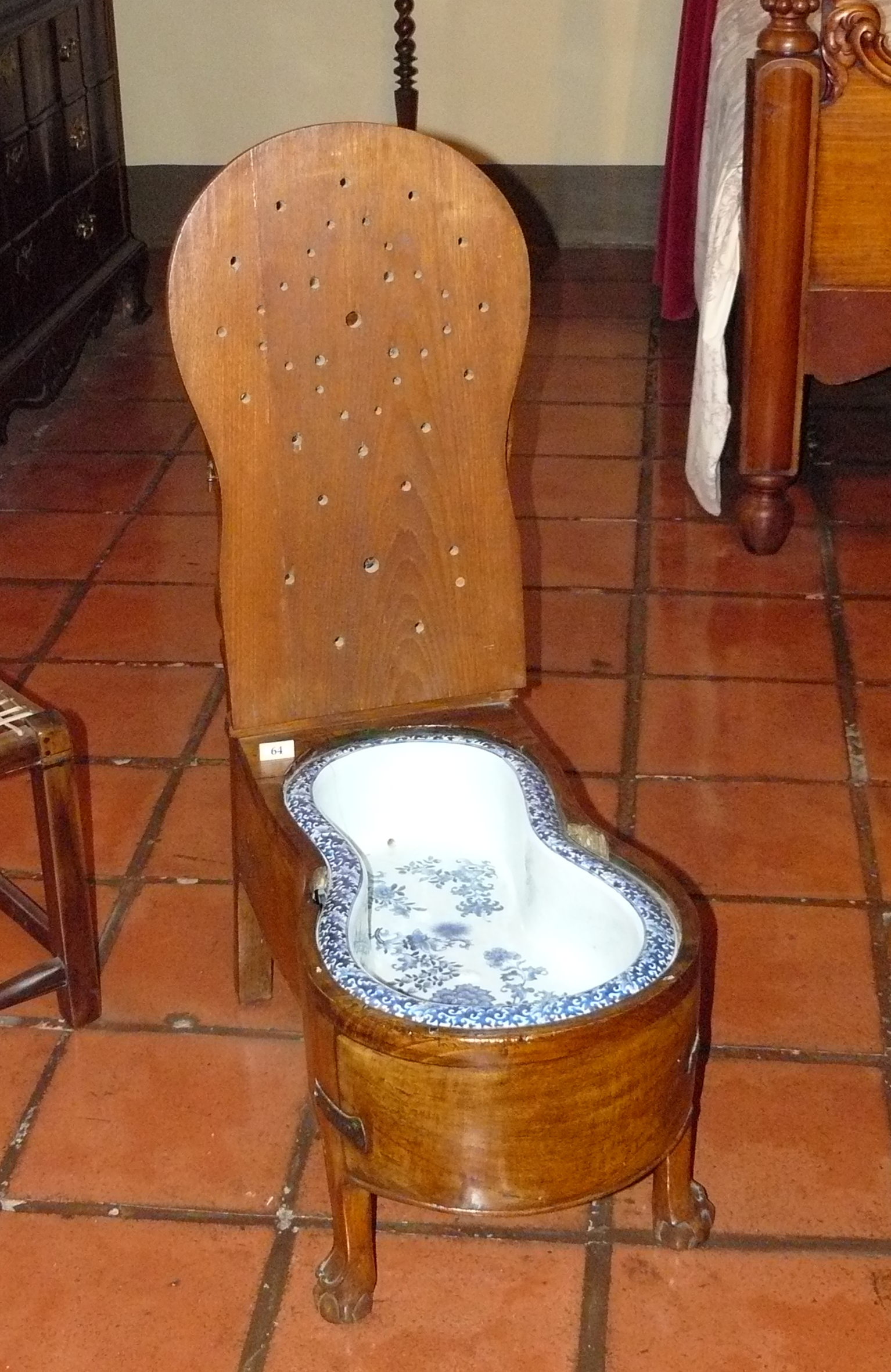 1800s dutch bidet with chinese porcelain